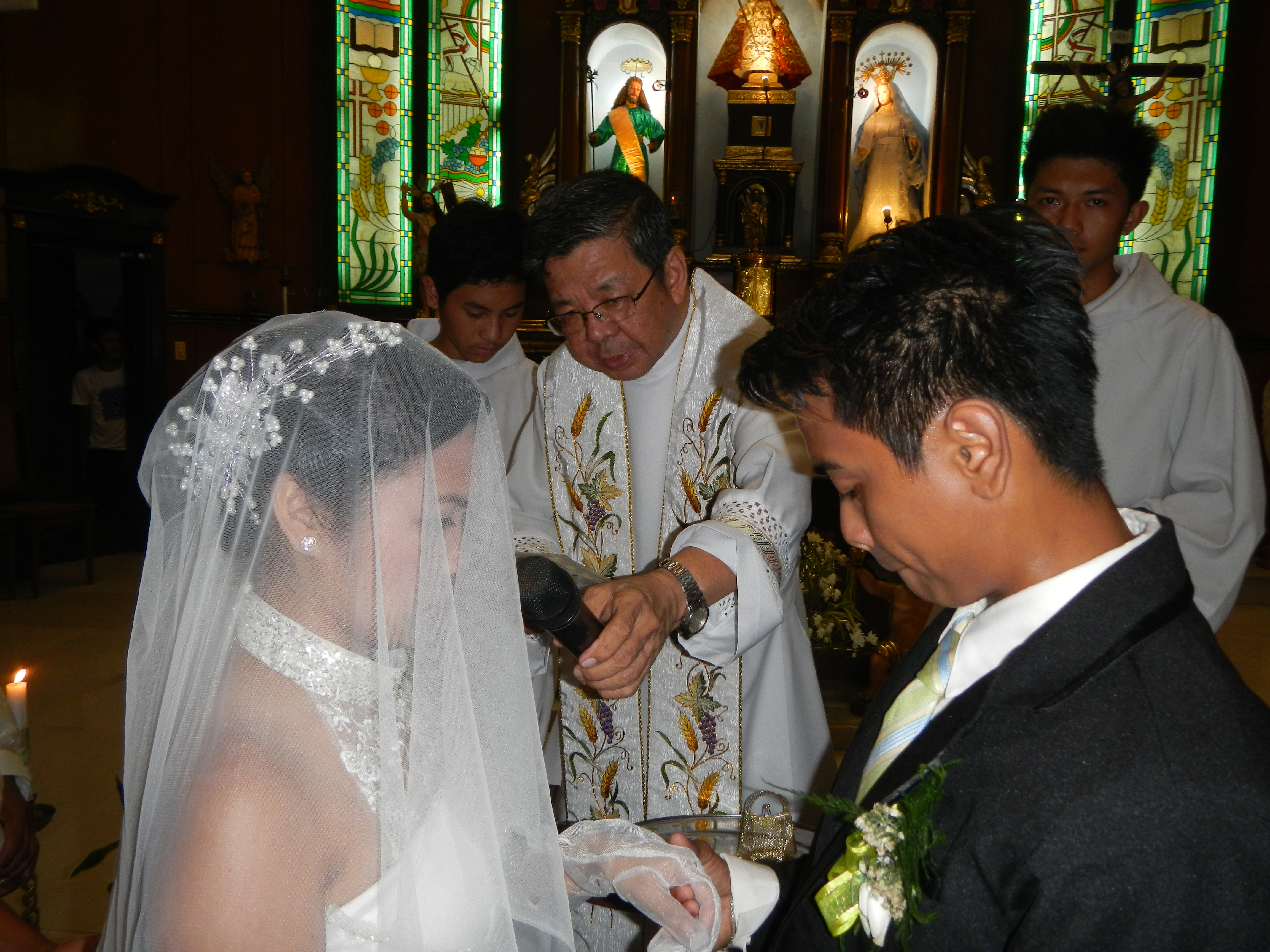 Wedding ceremonies in the Philippines - Weddings at a) Parokya ng Santo Niño, Barangay Parada, Santa Maria, Bulacan - and b) San Isidro Labrador Parish Church Muzon, CSJDM Diocese of Malolos, Vicariate of St. Joseph, Eastern District Vicar Forane: Father Narciso Sampana Founded 1998 Parish Priest, Fr. Dennis Espejo Sarmiento Homes Subdivision San Jose del Monte City, a suburban city in the province of Bulacan, Philippines, Barangay Muzon, San Jose del Monte City.